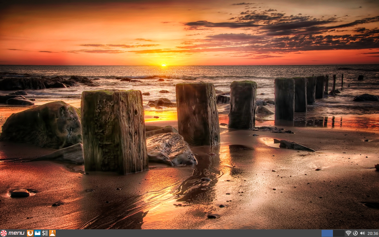 Peppermint OS 7 Desktop Screenshot (bare install)